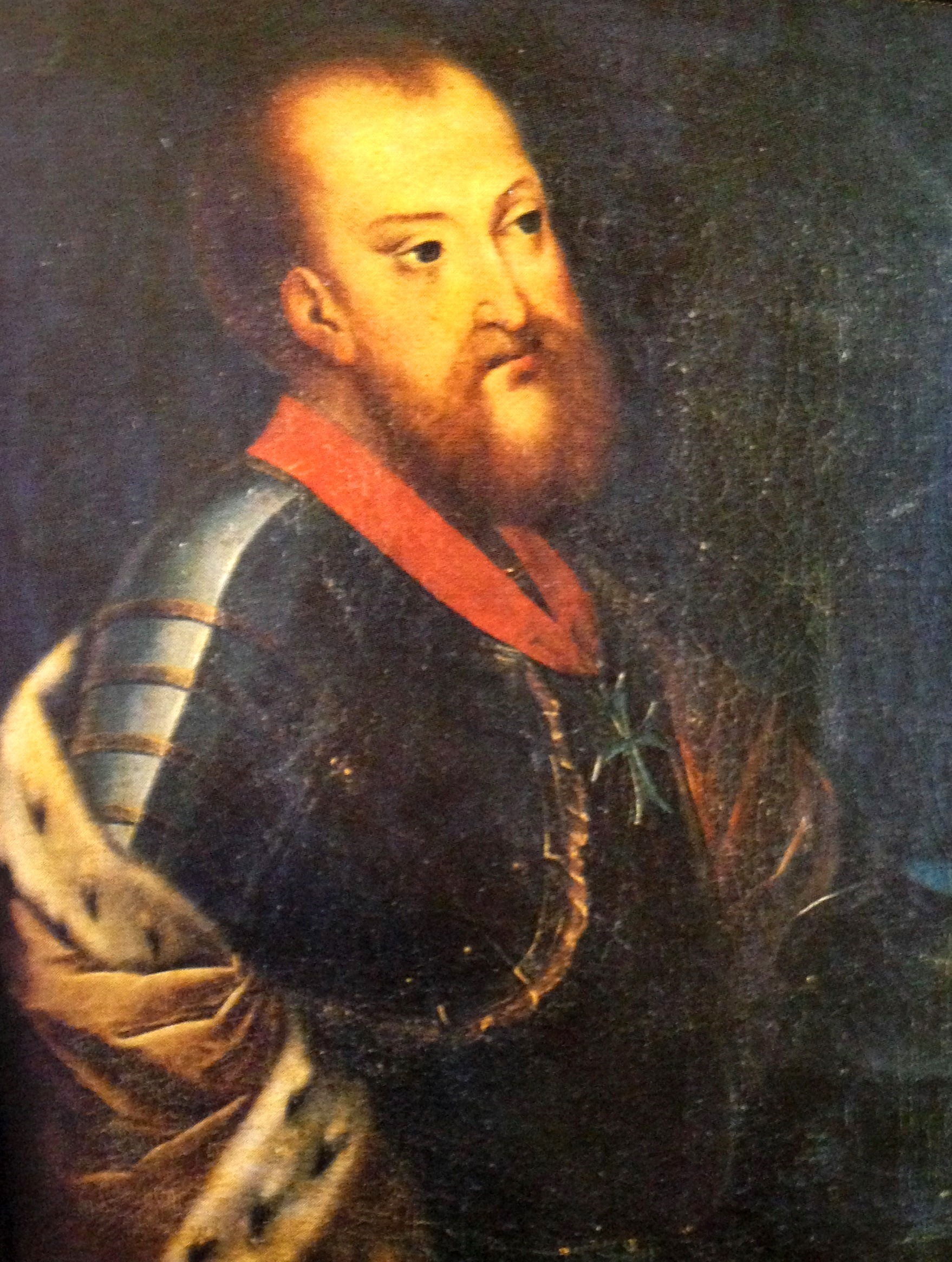 Portrait of Infante Luis, Duke of Beja, by Henrique Ferreira (1720). Located at the Casa Pia Biblioteca Pina Manique, originally part of the Monastery of Belem royal portraits collection.